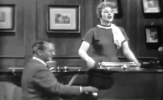 Screen capture from A Shower of Stars depicting Jo Stafford and her husband, Paul Weston, performing as Jonathan and Darlene Edwards. The Edwardses were a fictional couple created by Stafford and Weston as a comedy music act. As Jonathan, Weston plays a very bad lounge piano while Stafford as Darlene, provides vocals in every key except the right one. The couple produced at least five record albums as the imaginary couple. Jonathan and Darlene Edwards in Paris won a Grammy for Best Comedy Album in 1961. Jack Benny was the headliner for this January 9, 1958 television special. The plot ran that he had written a song and with the help of Ed Wynn, was trying to get singers to record it. Benny tried guest star Tommy Sands with no luck, then began his pitch to Jo Stafford and Paul Weston, who also were guests. The Westons didn't want to record the song, but didn't want to hurt Benny's feelings by refusing to, so they decided to "pass" the song to Jonathan and Darlene Edwards, who then demonstrated their "skills" by performing "All the Way" as a proposed "B" side of the single.